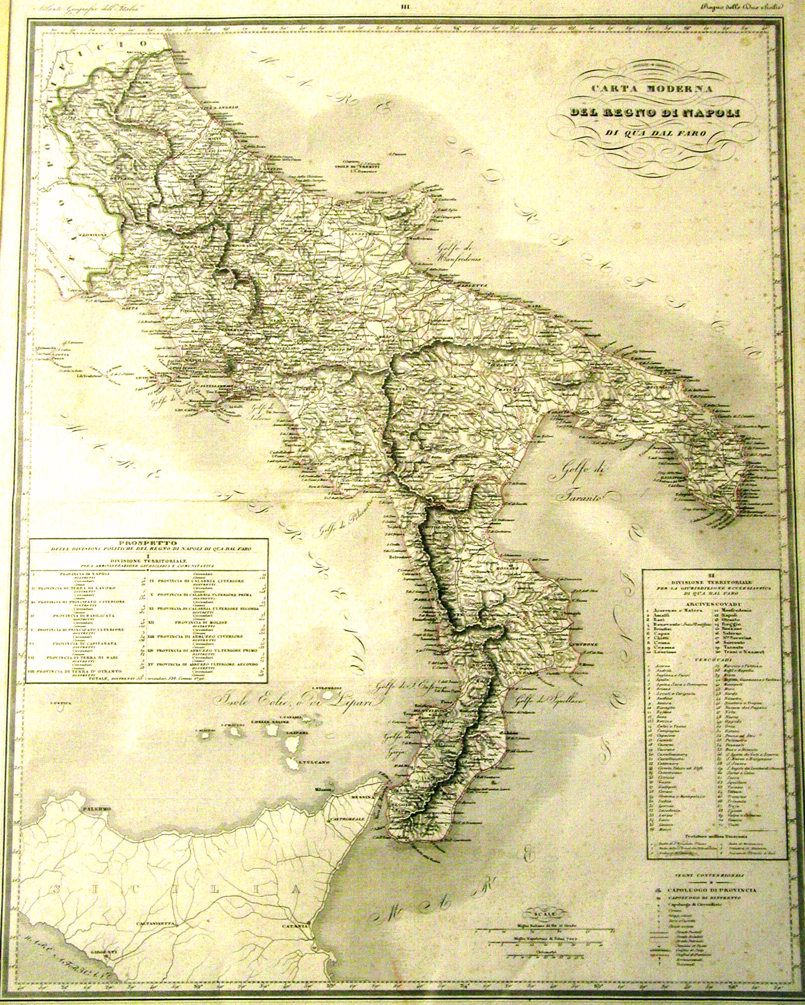 Map of Naples